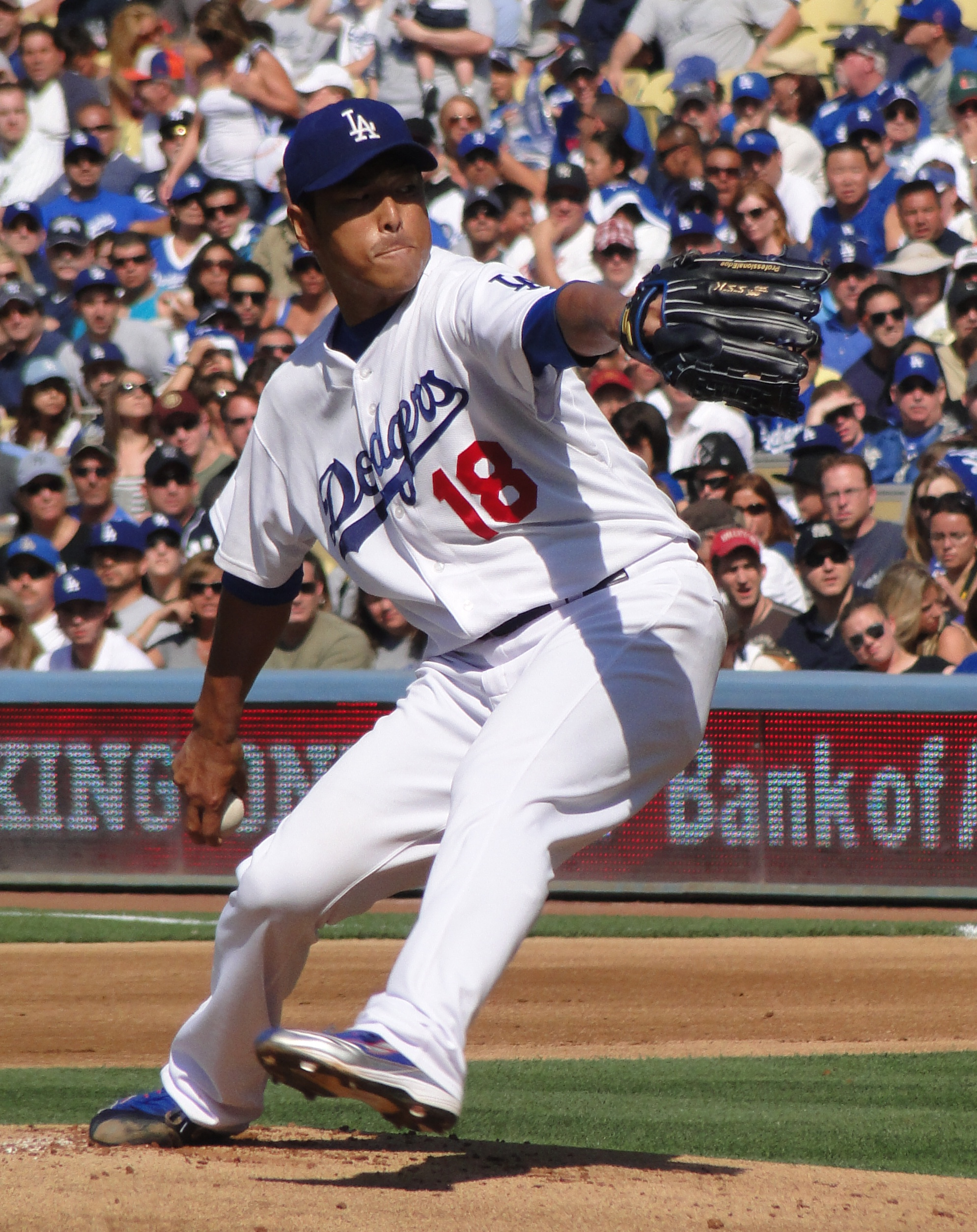 Description Photograph of Hiroki Kiroda at Dodger Stadium pitching against the New York Yankees Date26 June 2010SourceI (Cbl62 (talk)) created this work entirely by myself.AuthorCbl62 (talk) 03:56, 27 June 2010 (UTC) 03:56, 27 June 2010 . . Cbl62 . . 1,989×2,507 (1.63 MB) Photograph of Hiroki Kiroda at Dodger Stadium pitching against the New York Yankees